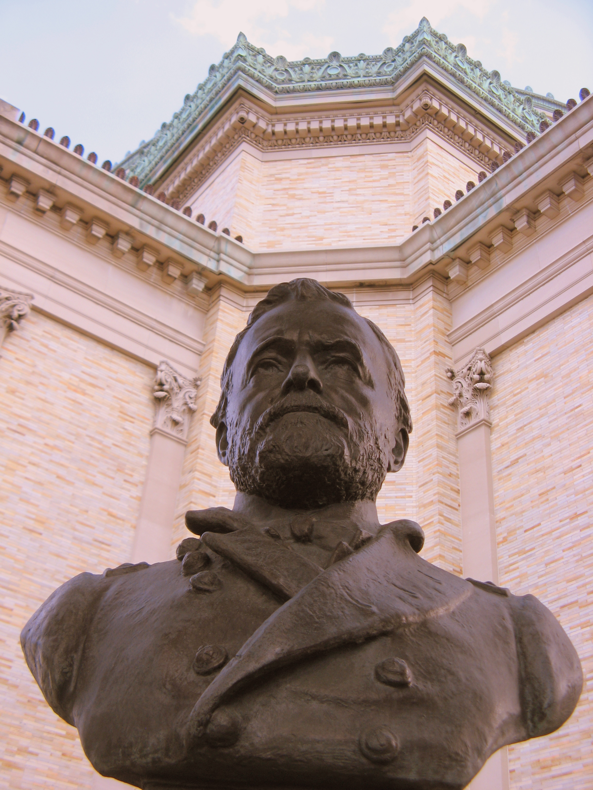 Bronx Community College -- Hall of Fame of Great Americans-- Ulysses S Grant with Gould Memorial Library in Background